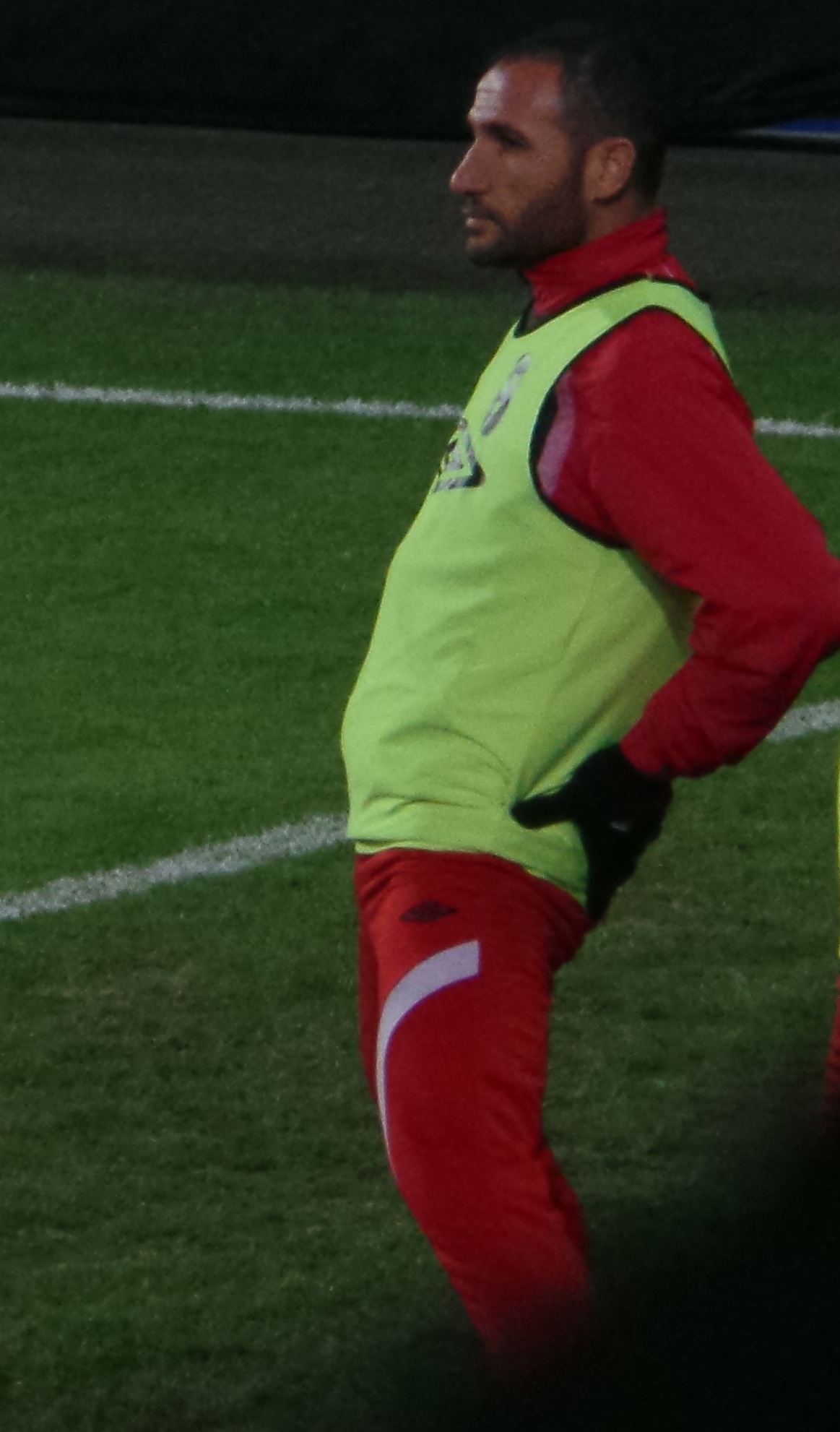 Sabri Gümüşsoy